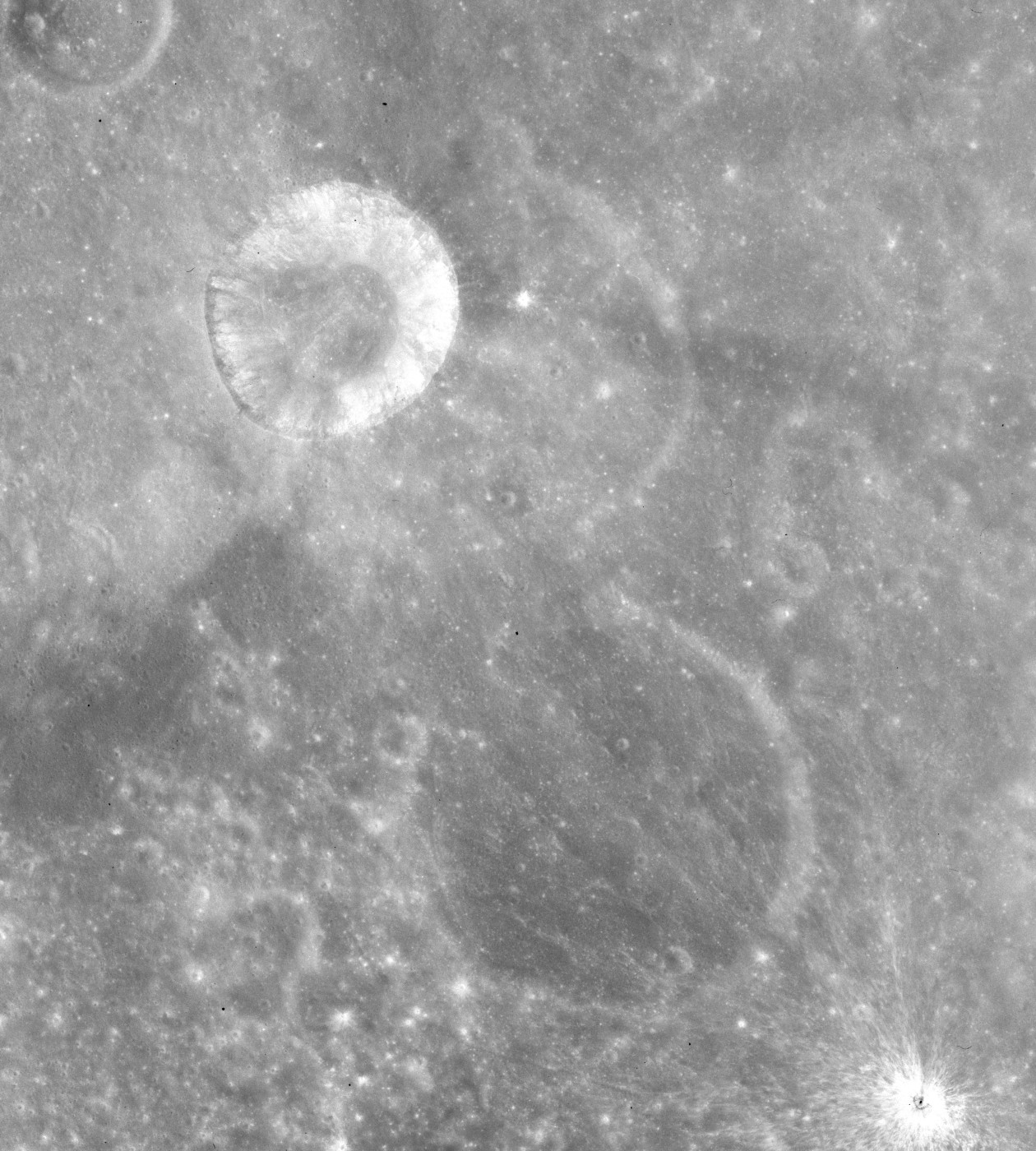 Hume (below center), Hume A (above center), and Hume Z (bright crater above left of center)